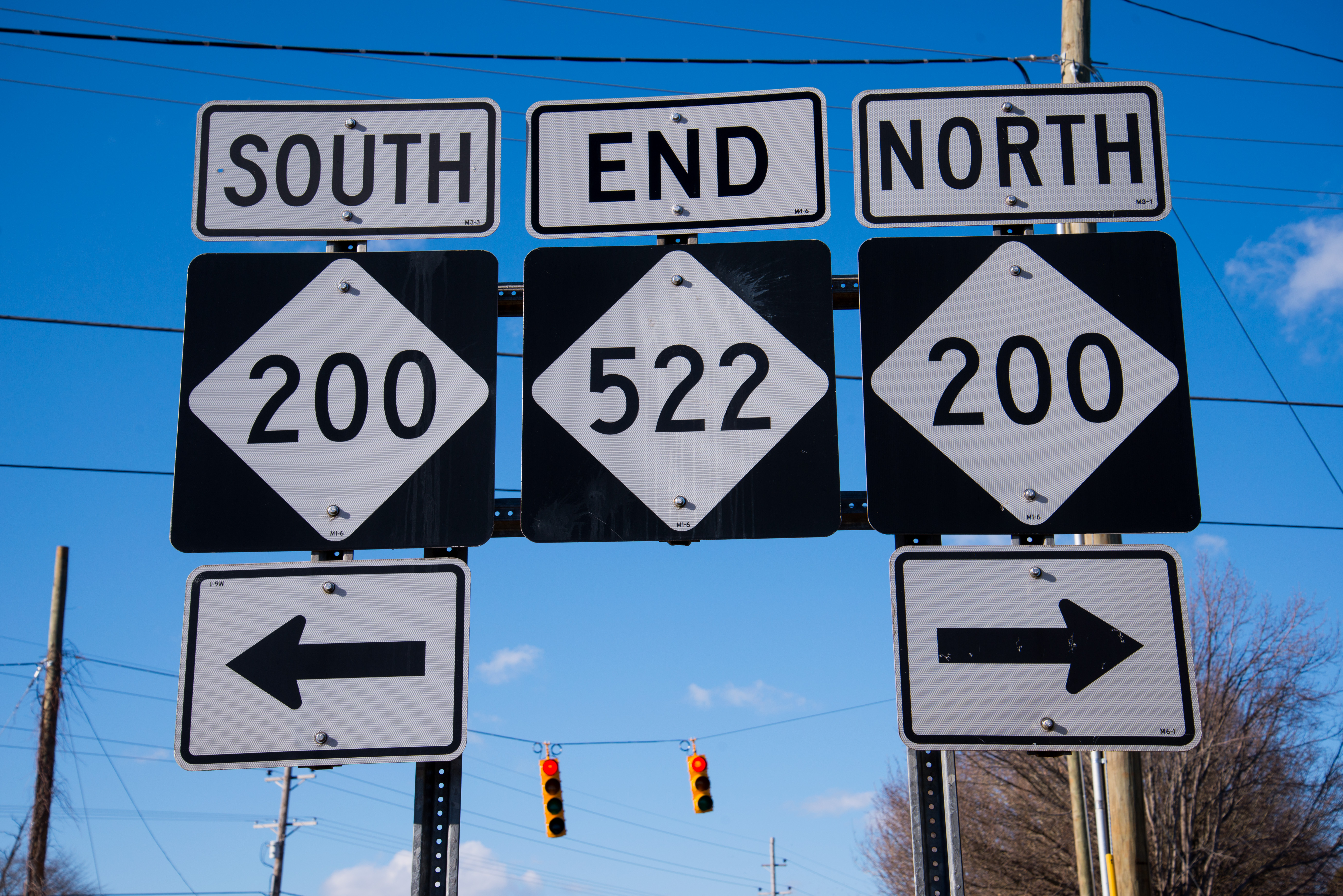 End of North Carolina Highway 522, at the intersection of Rocky River Road and Lancaster Highway (NC 200), in Roughedge, North Carolina.